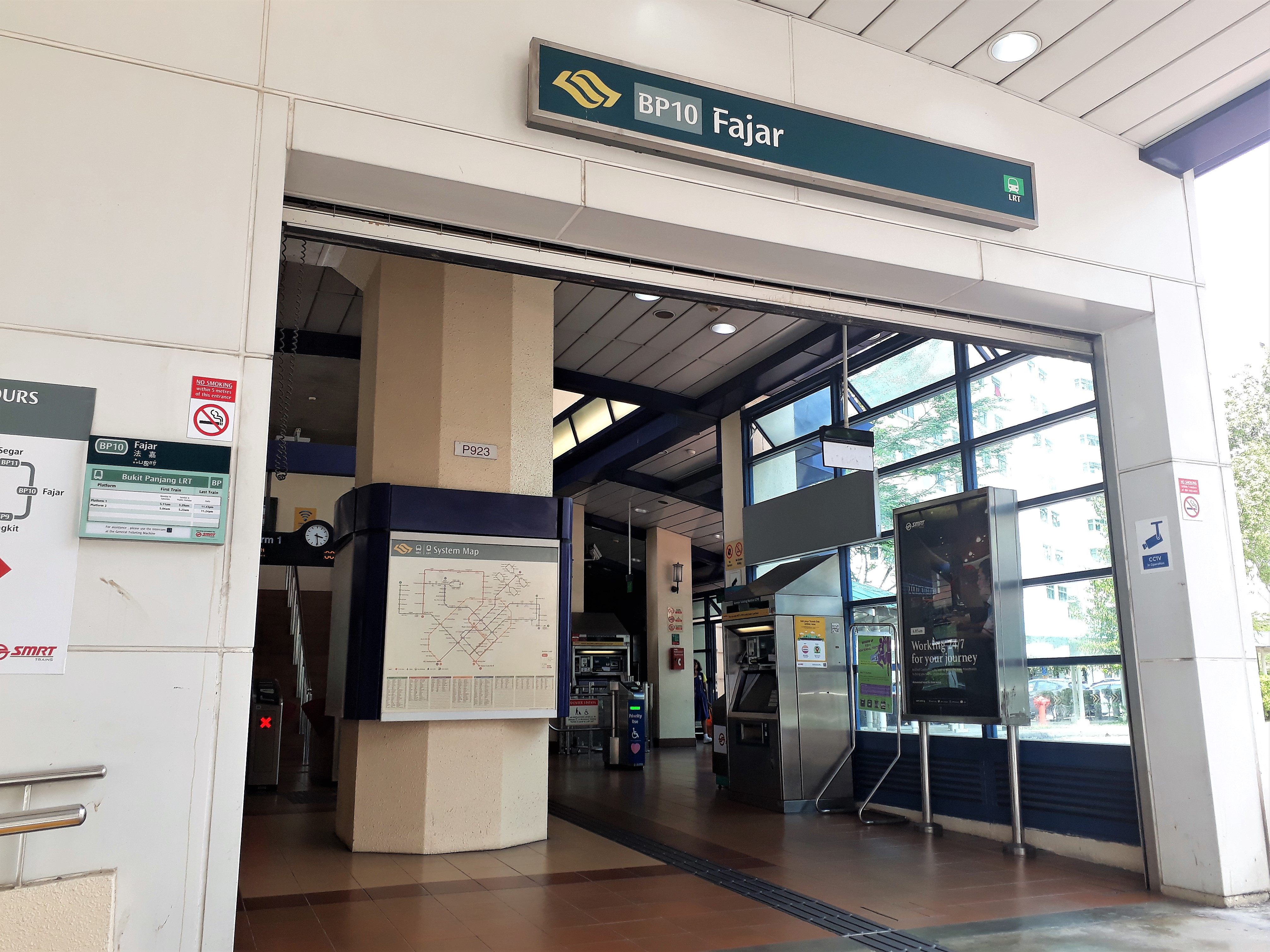 Station Entrance to Fajar